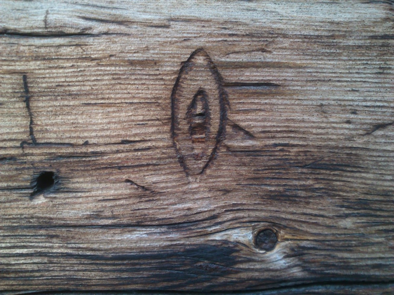 Naustrose fra Tresfjord